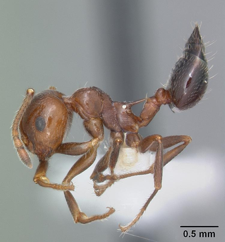 Profile view of ant Crematogaster atkinsoni specimen casent0103768.